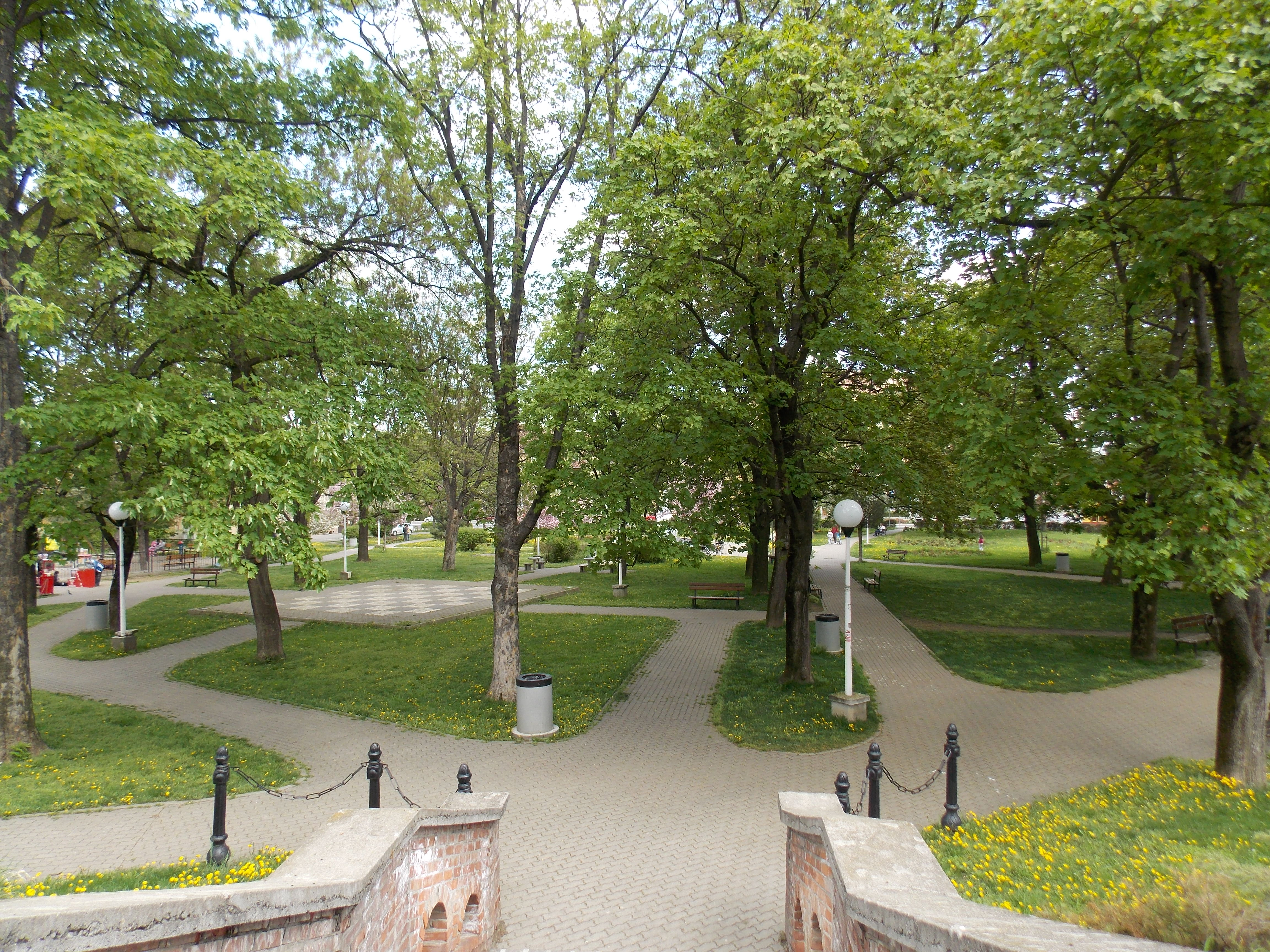 Parcul Tineretului din Sibiu, vedere dinspre Vest